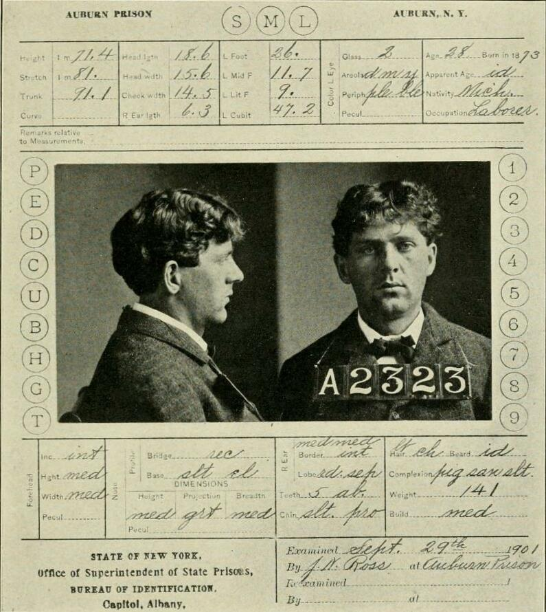 Auburn, New York prison card for assassin Leon Czolgosz